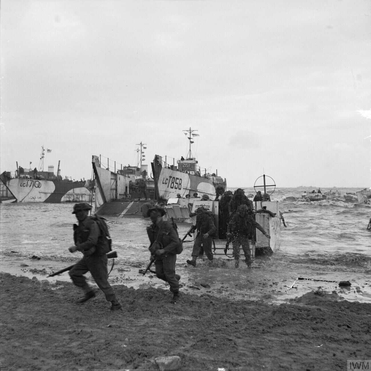 Operation Overlord (the Normandy Landings)- D-day 6 June 1944 Commando troops coming ashore from LCIs (Landing Craft Infantry).